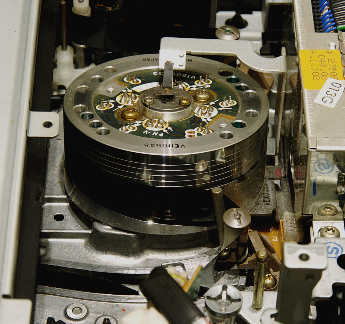 Kopftrommel VHS / Head Drum VHS (with Video Head Panasonic VEH0548)